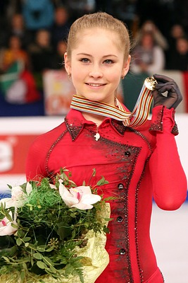 Julia Lipnitskaia at the 2014 European Championships - Awarding ceremony